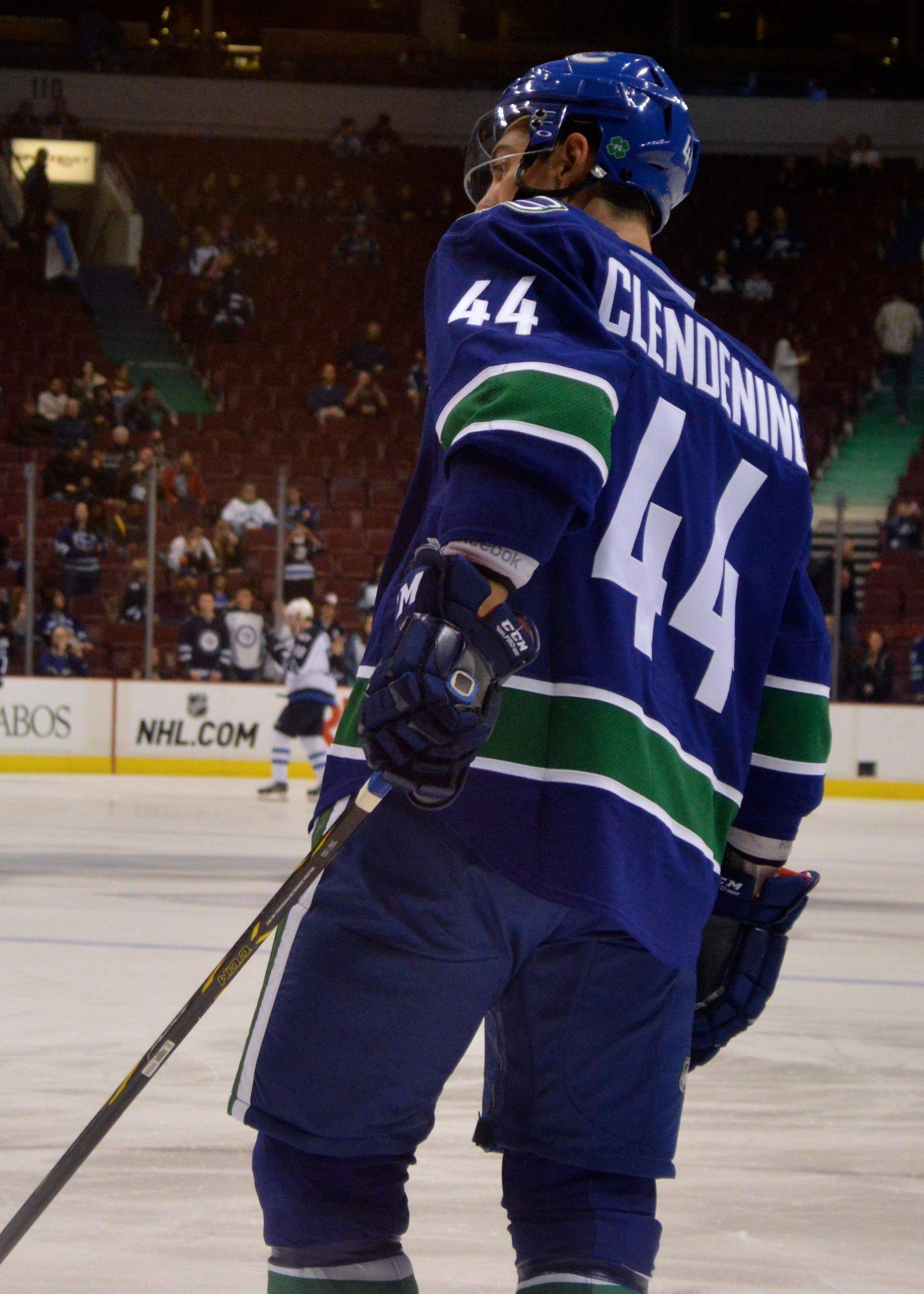 Vancouver Canucks defenceman Adam Clendenning during warm-up prior to a game against the Winnipeg Jets at Rogers Arena on February 3, 2015.